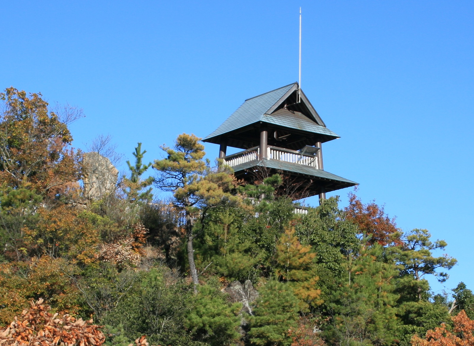 Observatory of Sarubami Castle